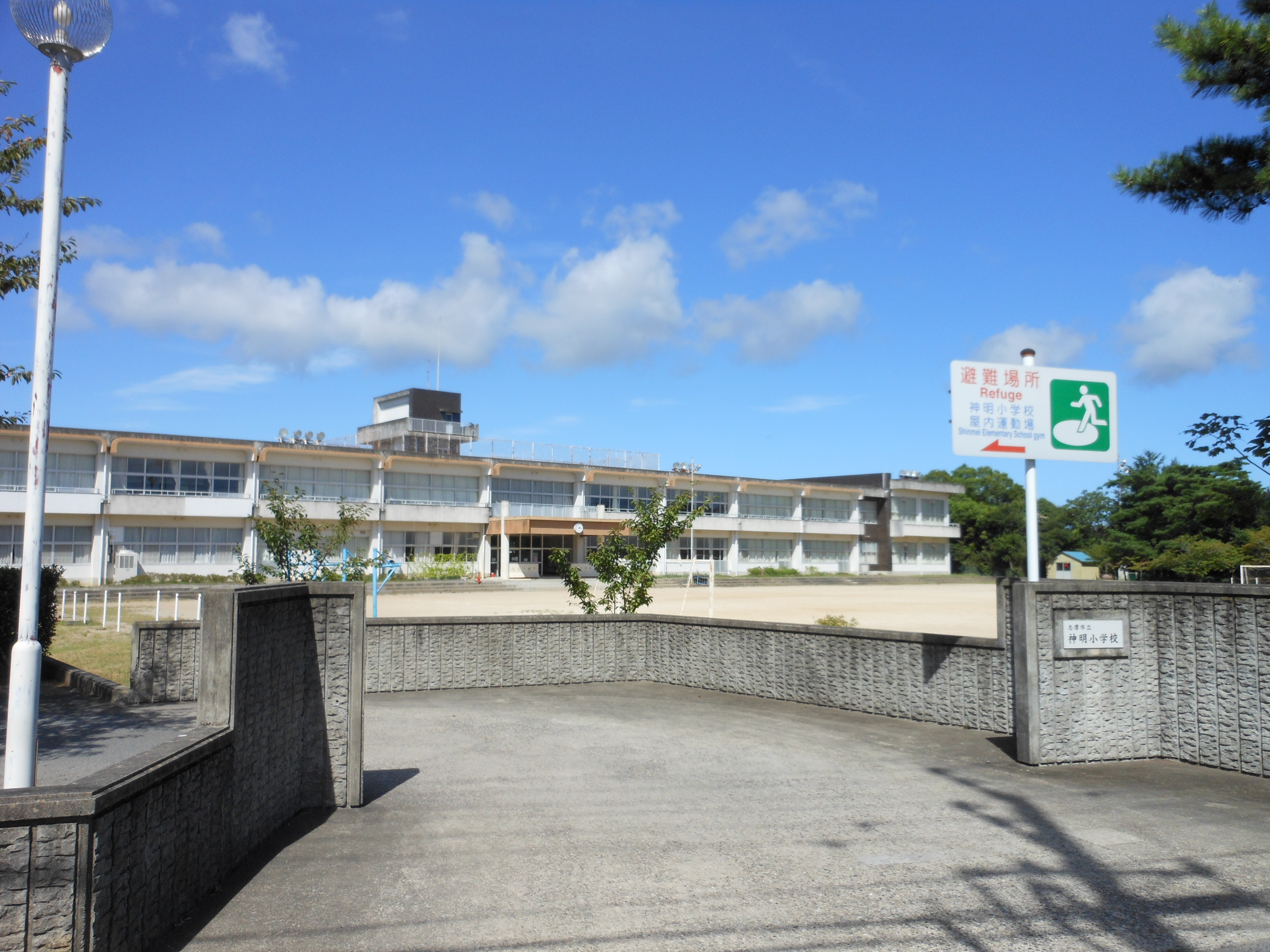 This is Shima City Shinmei Elementary School in Agocho-Shimmei, Shima, Mie, Japan.